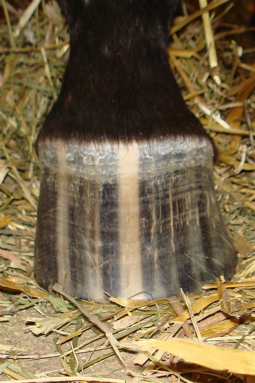 Striped Hooves- An Awesome Cowgirl